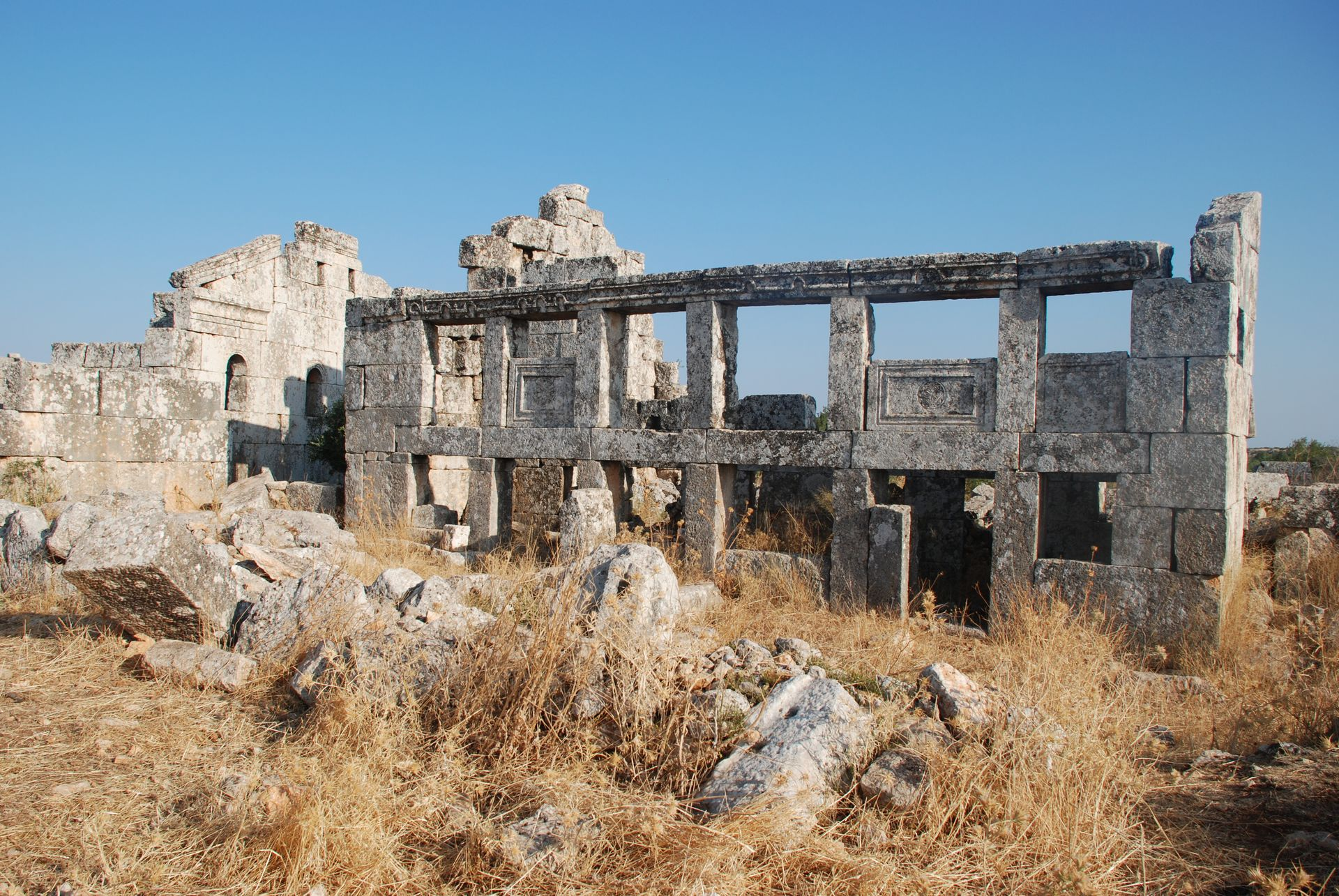 Barisha, in Jebel Barisha, dead city in Syria